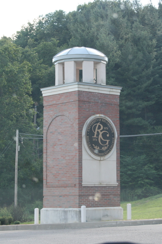 Rio Grande University Entrance, Rio Grande, Gallia County, Ohio, United States